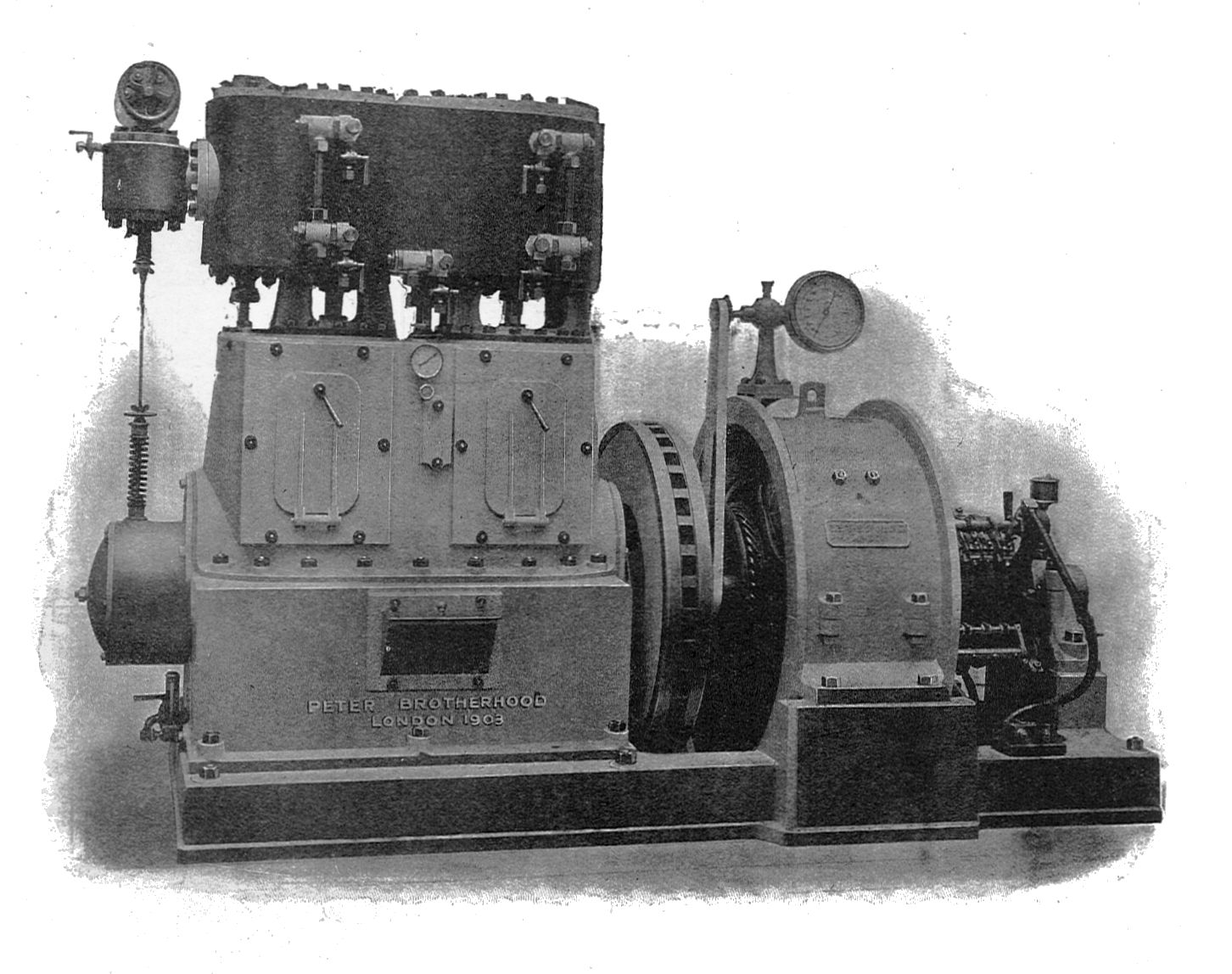 Brotherhood's high-speed engine (Rankin Kennedy, Modern Engines, Vol IV).jpg